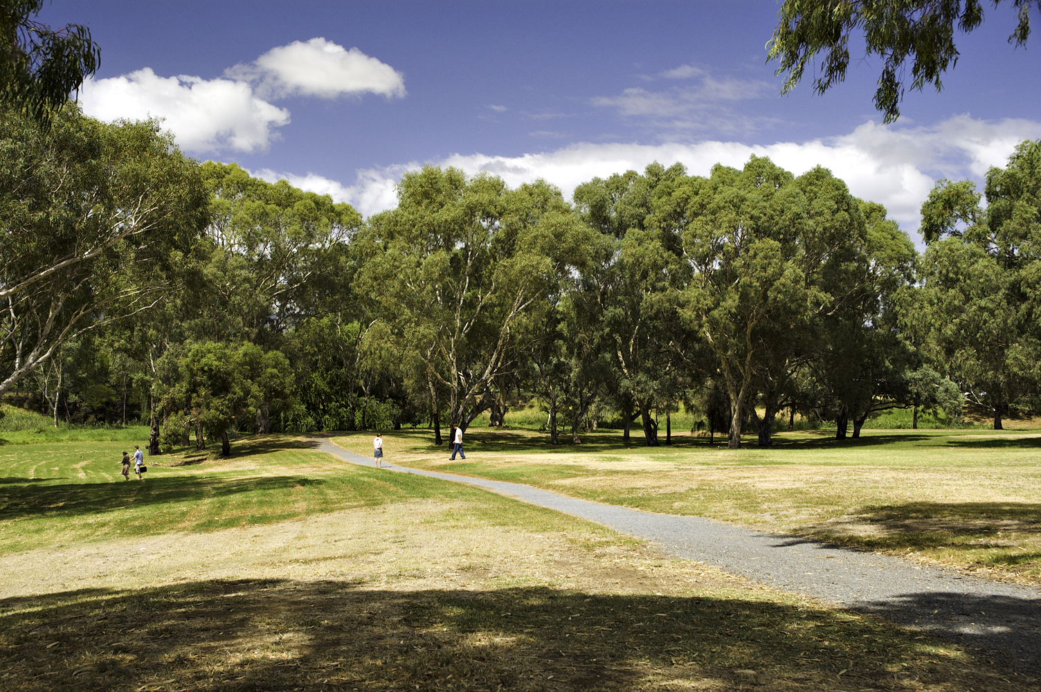 Category:Images of Adelaide